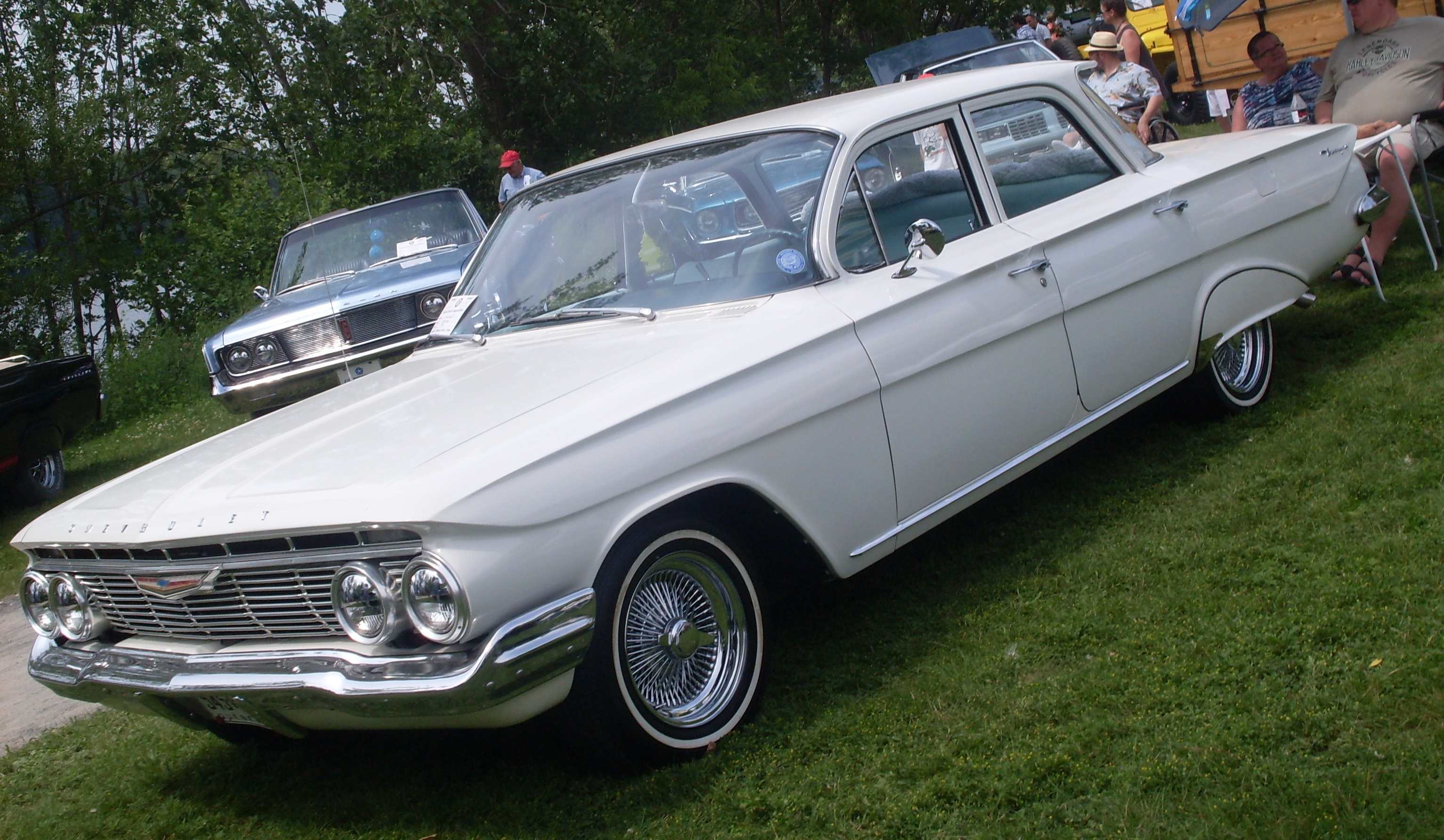 1960 Chevrolet Biscayne photographed in Laval, Quebec, Canada at Auto classique VACM Laval.